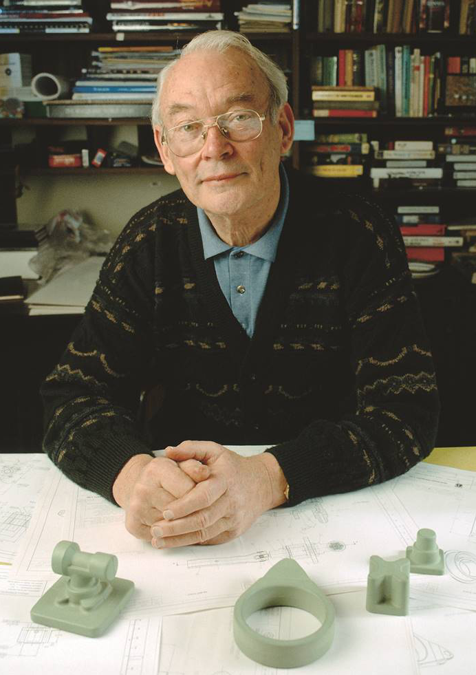 Crop of image supplied by Uniflow Power Ltd., from archive material they hold. Free license approved. Image of Australian engineer Edward (Ted) Pritchard taken in 2001.